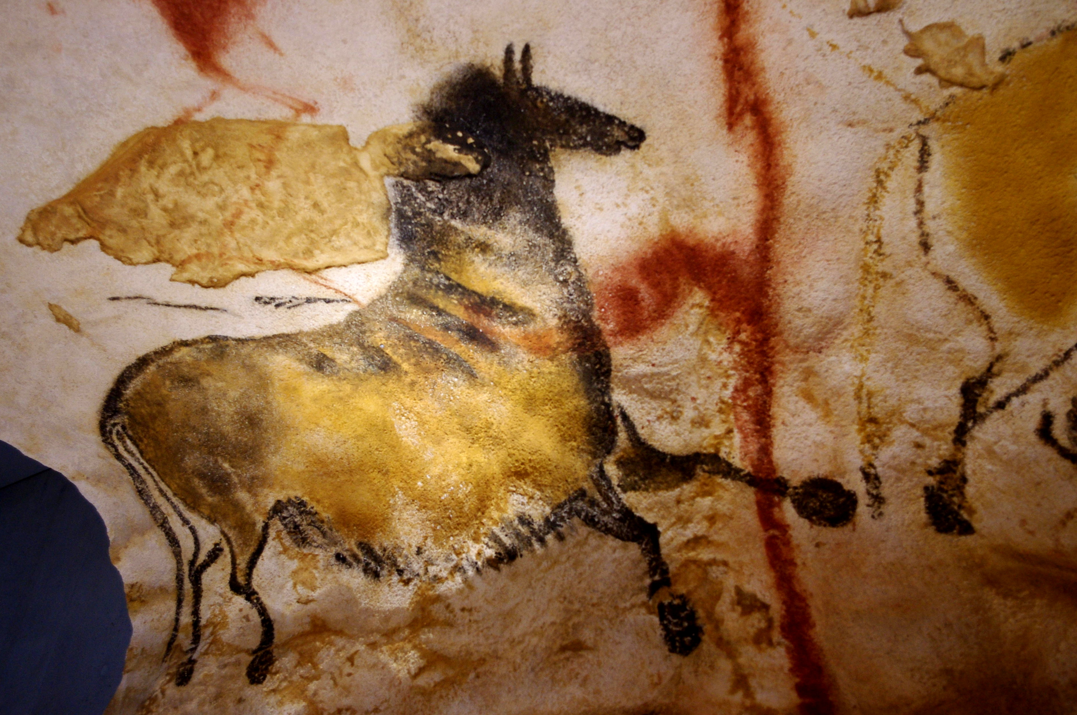 Lascaux 4, Montignac, Dordogne, France. Pictures takes in the part called atelier.